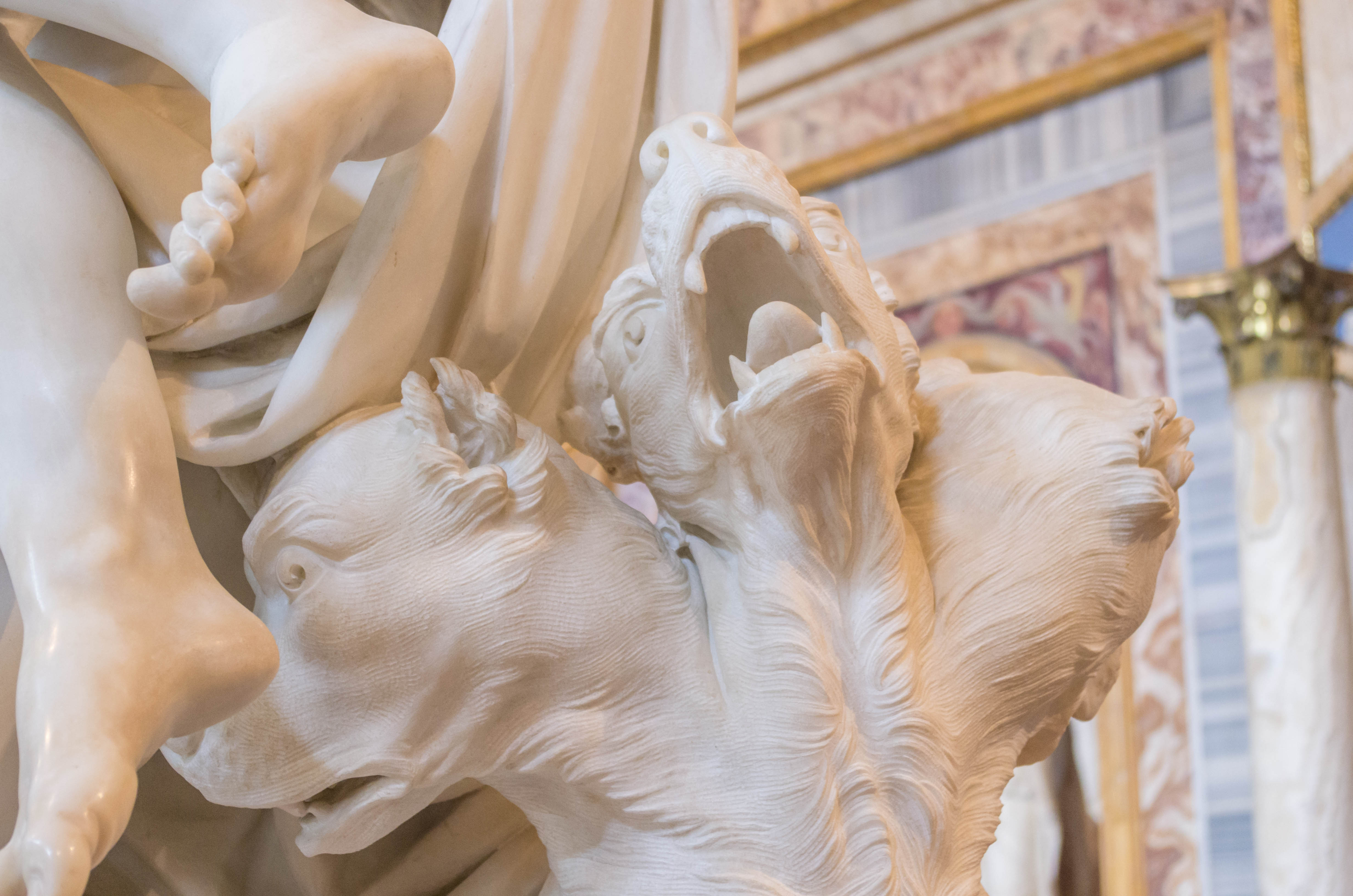 The Rape of Proserpina